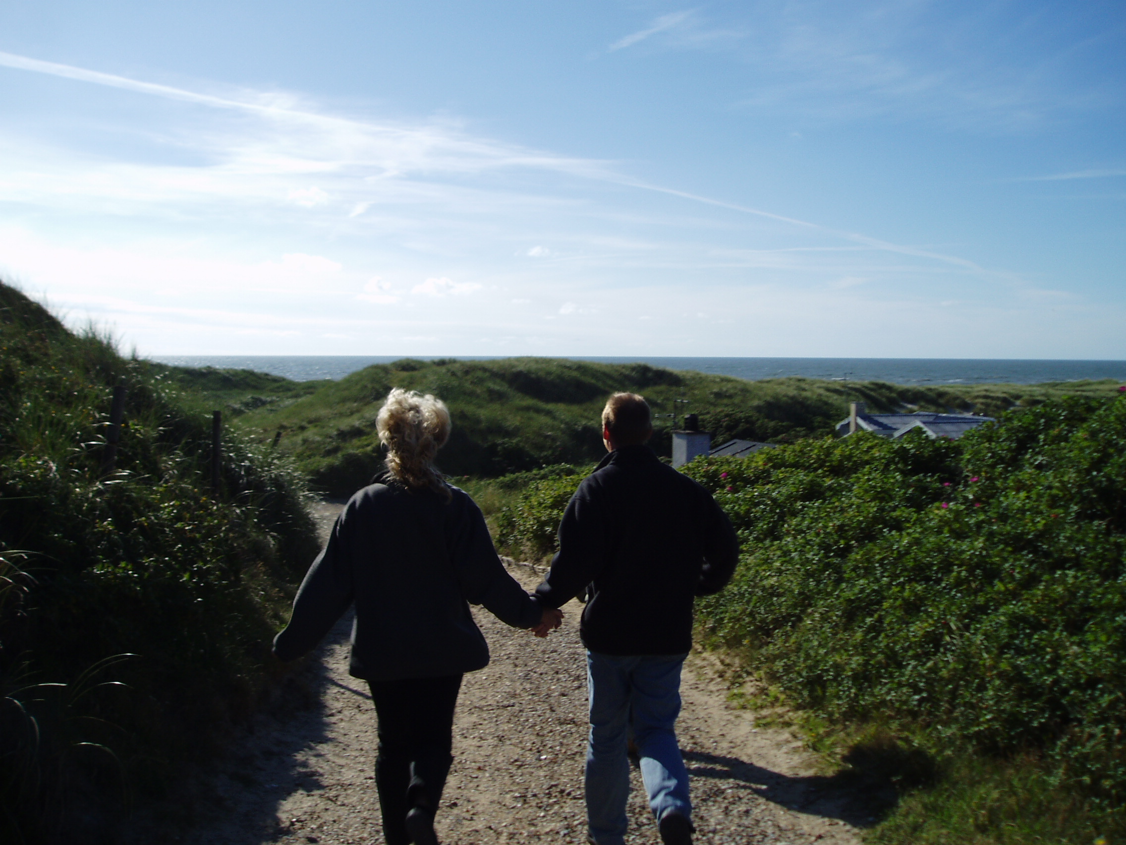 Two middle-aged people in love, running down a beach in Denmark.